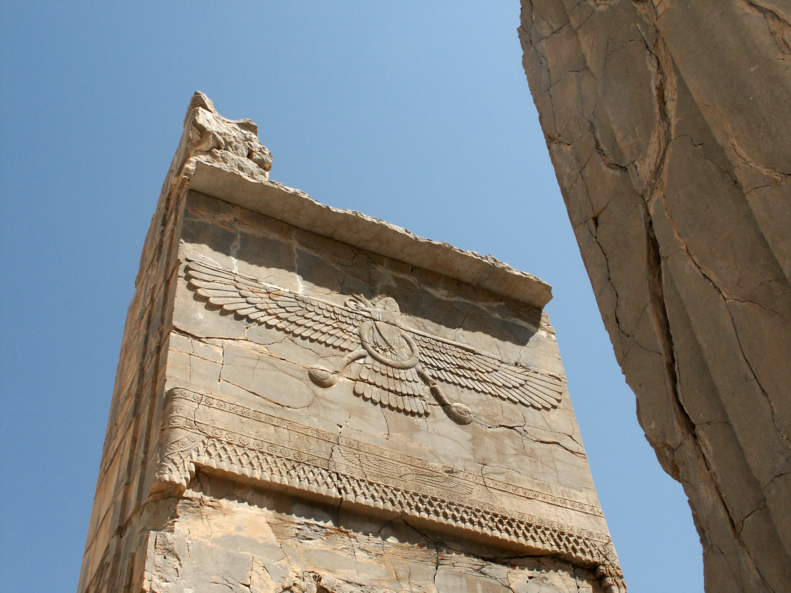 Relief representing an eagle in Persepolis. See also the drawing of this relief by Flandin on File:Persepolis_Bas-relief_Flandin.jpg.